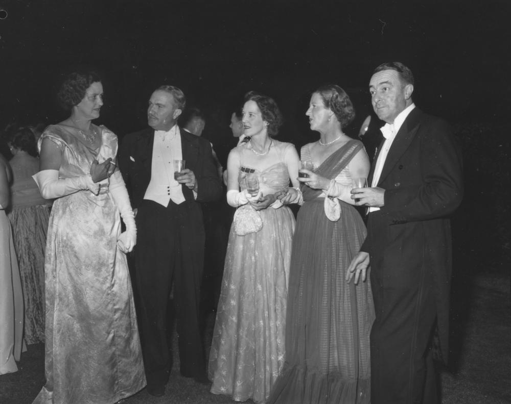 Guests pictured at the Royal Ball, Brisbane, 1954. A ball was held in Brisbane City Hall in honour of the royal visit of Queen Elizabeth. This elegantly dressed group of people were photographed enjoying drinks at the ball.